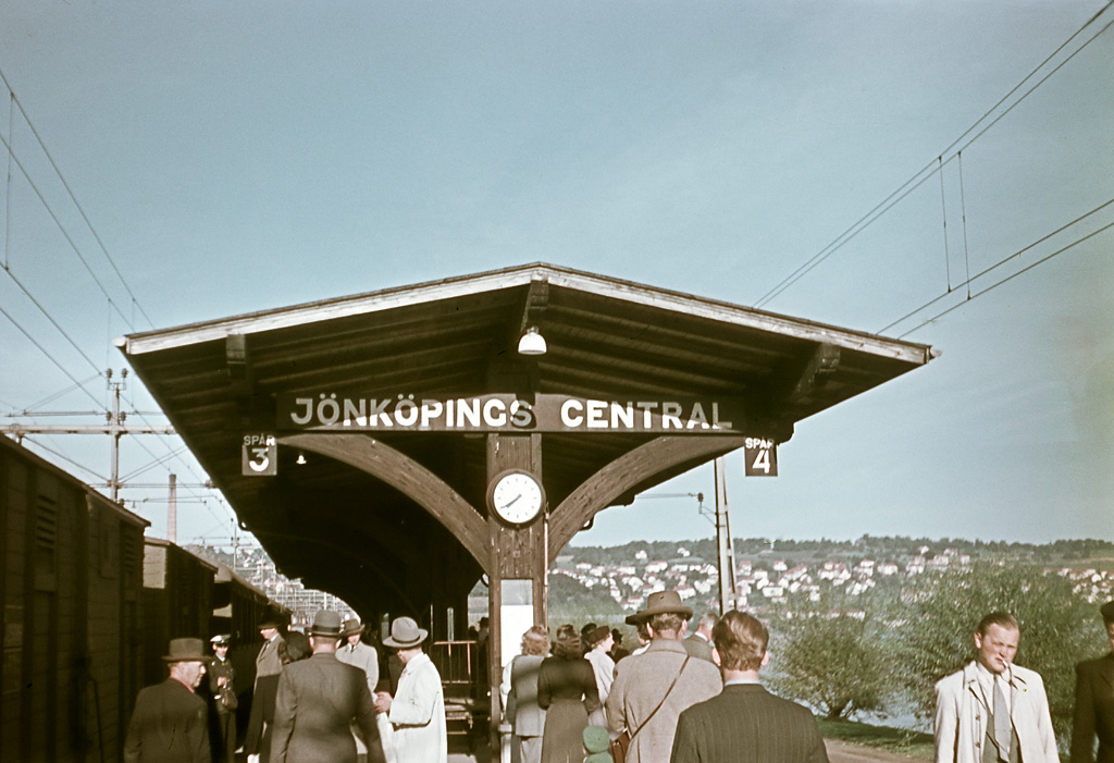 Jönköping railway station. Järnvägsstationen i Jönköping. Parish (socken): Jönköping Province (landskap): Småland Municipality (kommun): Jönköping County (län): Jönköping Photograph by: Fredrik Bruno Date: 1945 Format: Colour slide See a recent photo of the same view: Persistent URL: Read more about the photo database (in english)